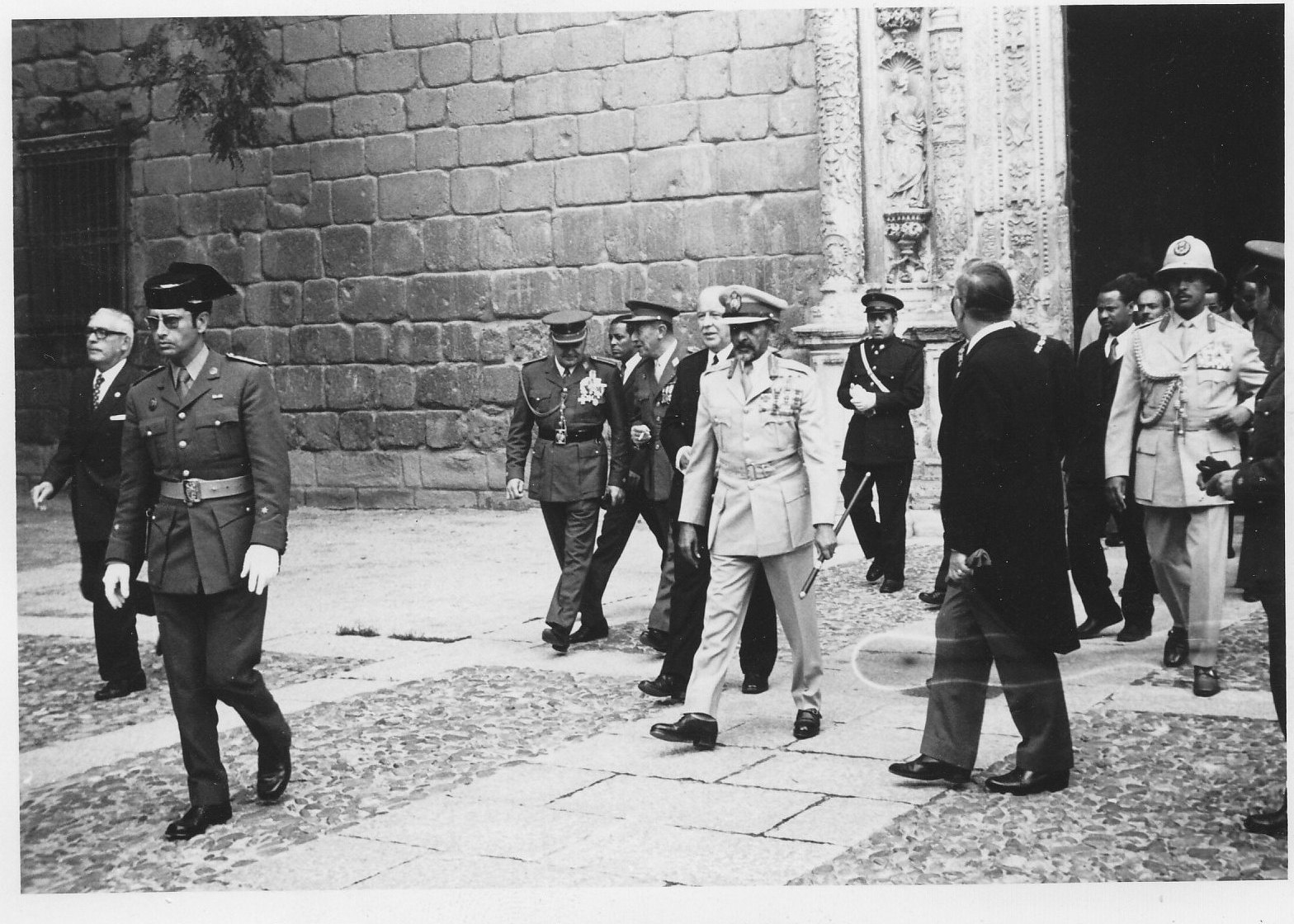 Haile Selassie I in Toledo (Spain) en April 1971. Picture by Eduardo Butragueño.